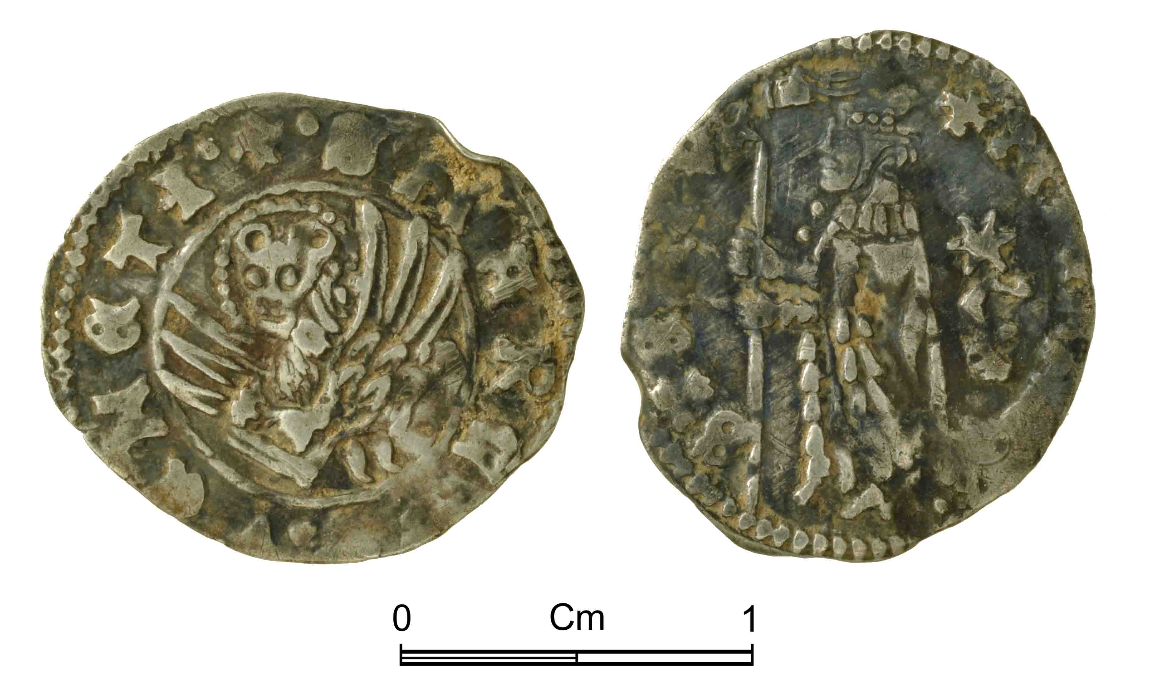 Medieval silver coin Venice, Michele Steno (1400-1413) soldino 0.39g